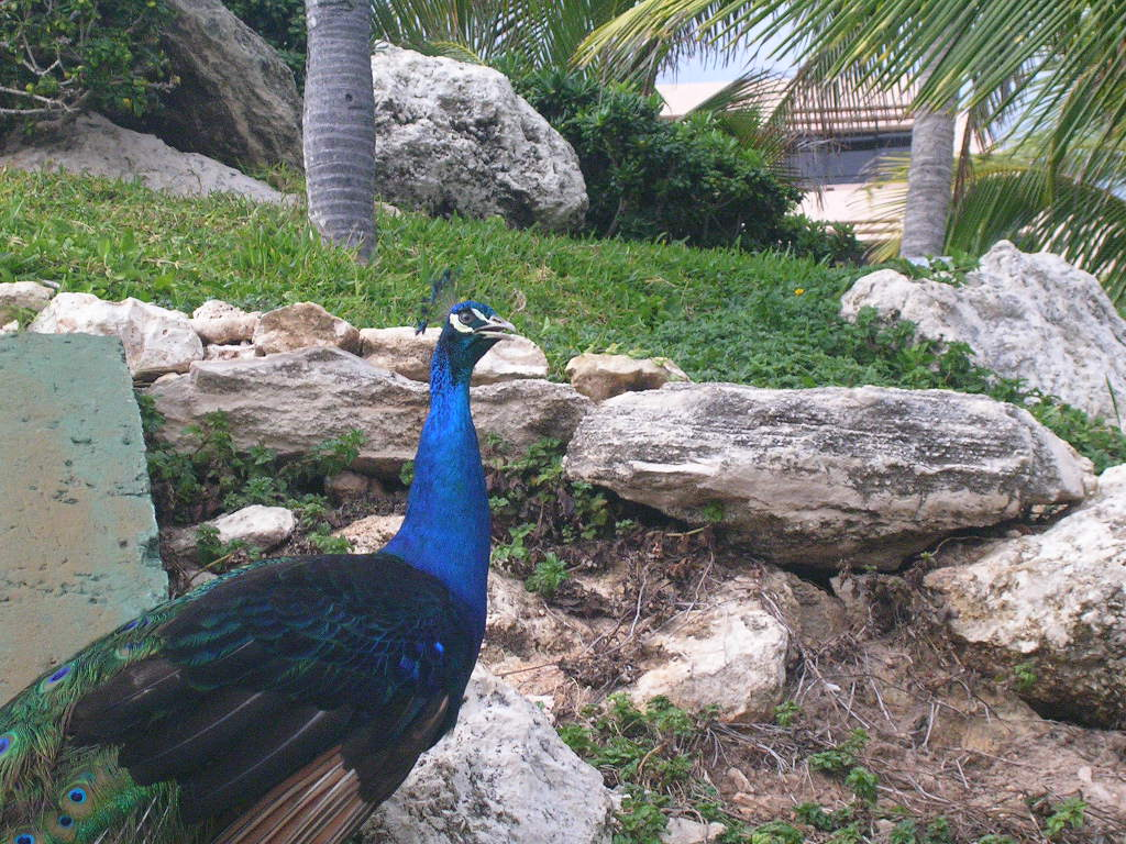 Male peacock (black shoulder mutation), train "at rest" Taken in Cancun, Mexico, February 2005